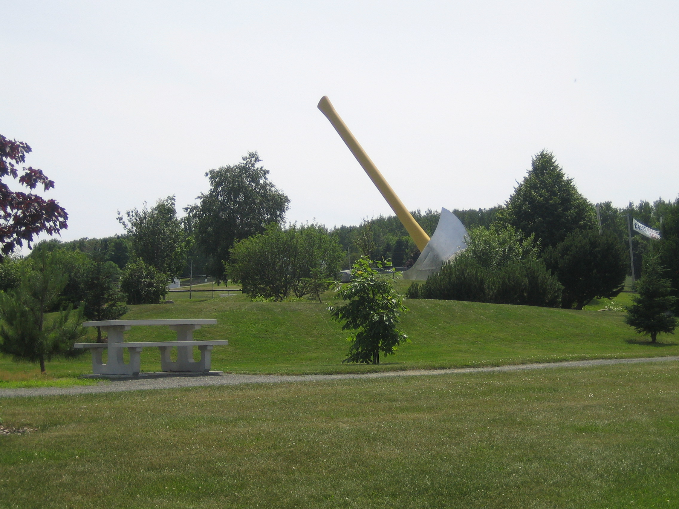 Worlds Largest Axe Nackawic NB